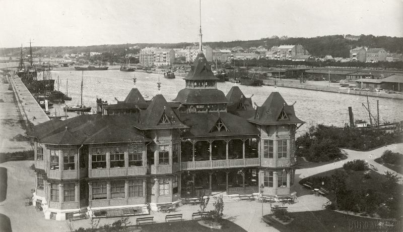 Hamnpaviljongen (The Harbour Pavillion) in Helsingborg 1898.